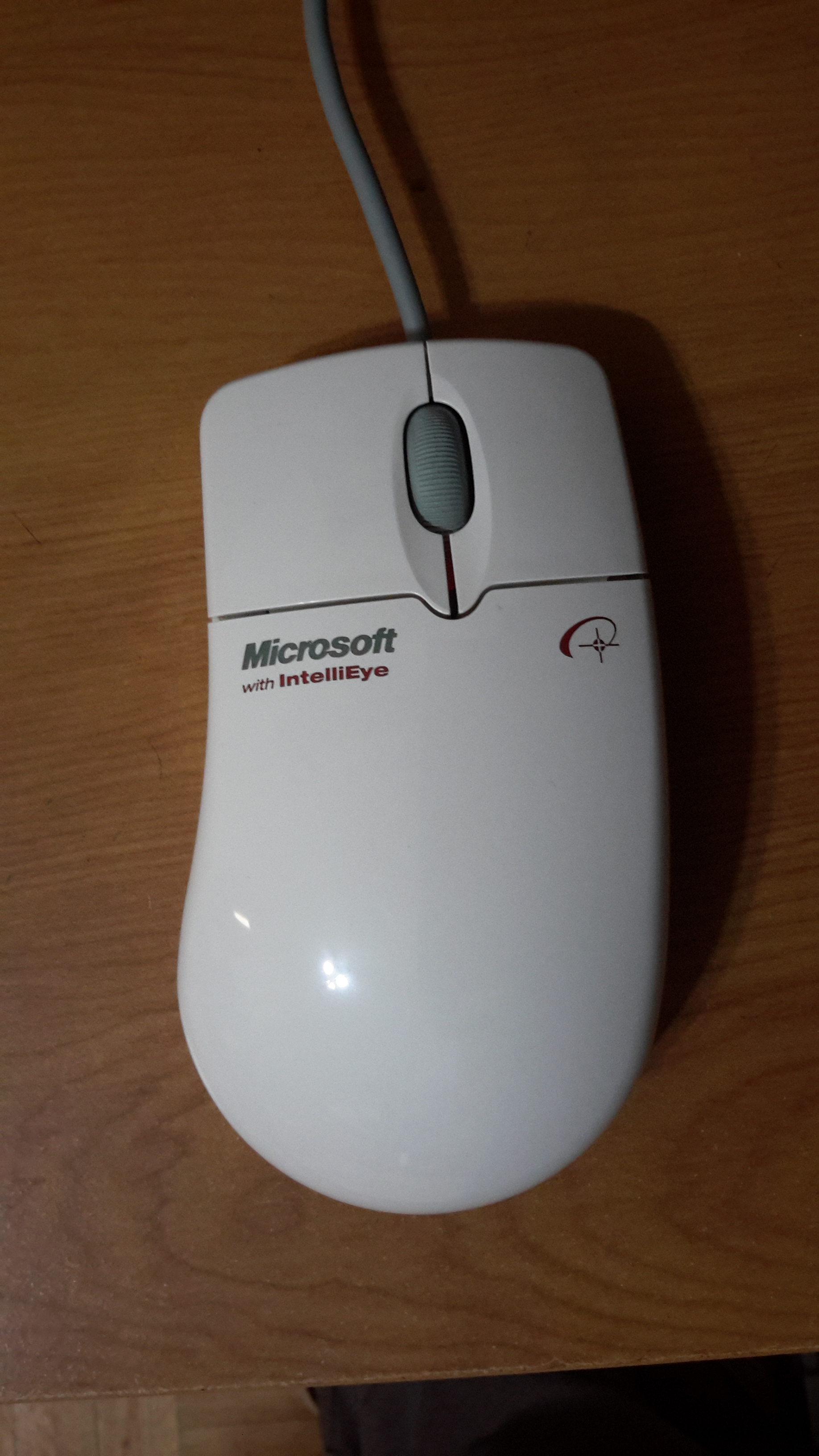 First IntelliEye mouse by Microsoft